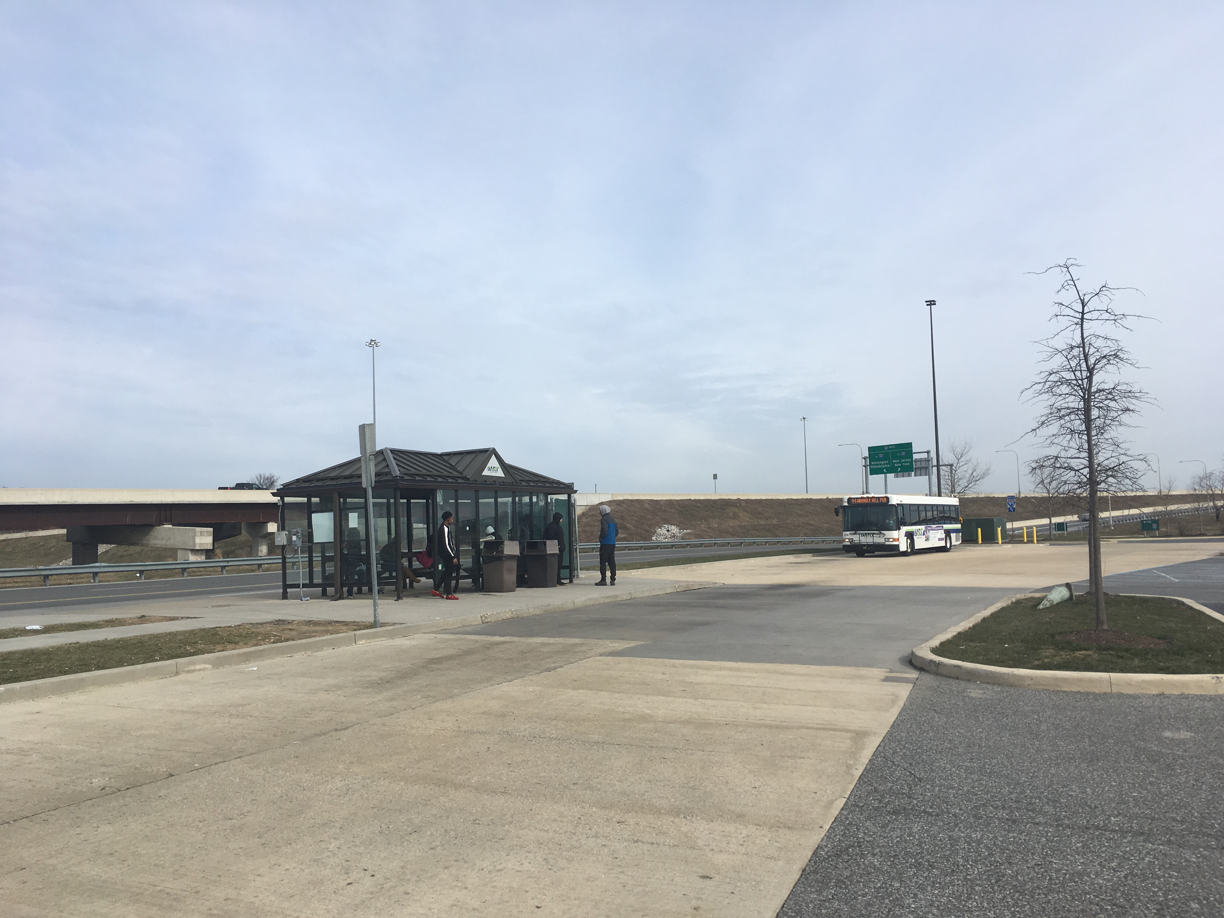 The Christiana Mall Park & Ride, which is served by DART First State buses, at the Christiana Mall in Christiana, Delaware